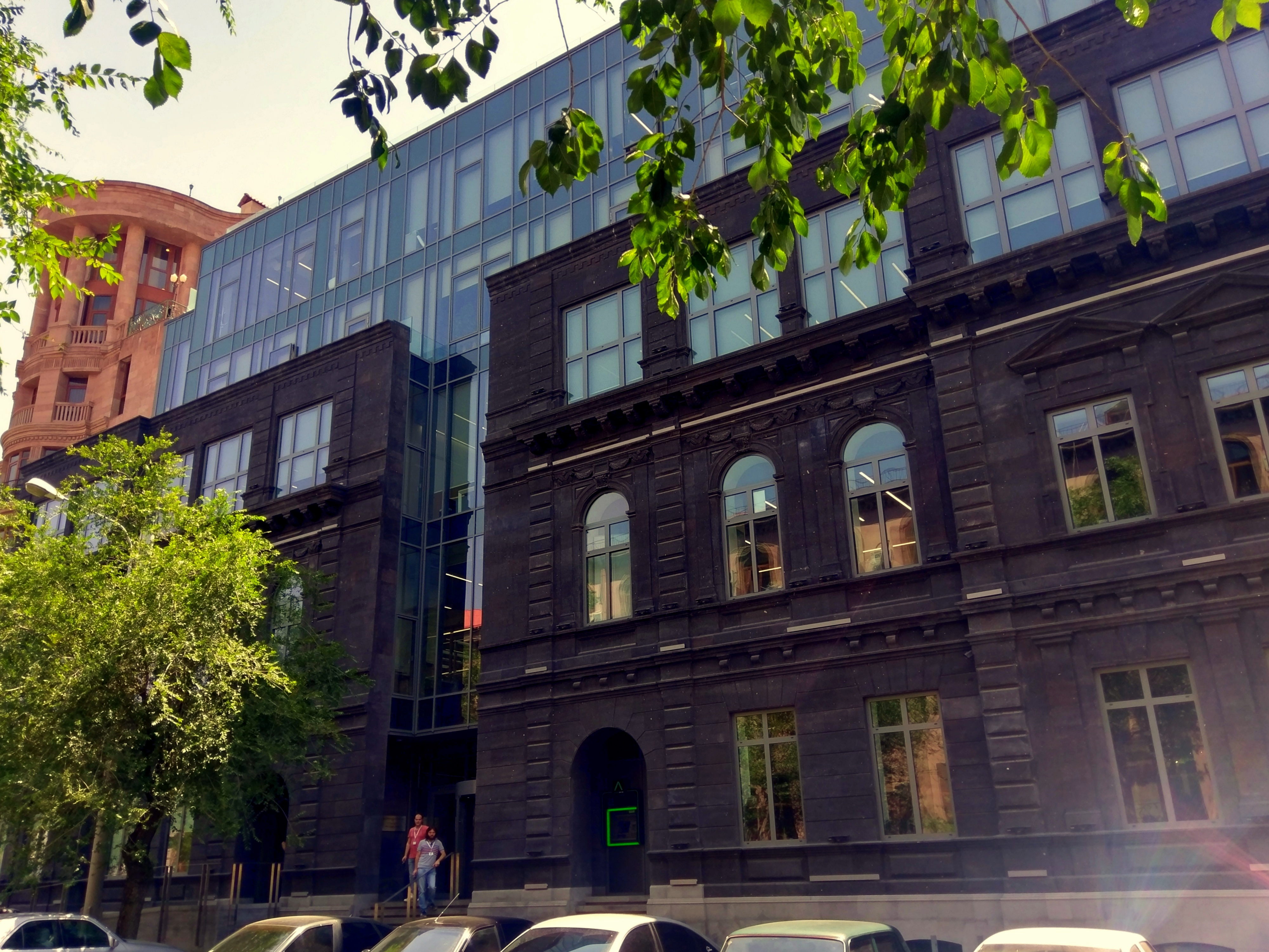 AGBU building, Yerevan